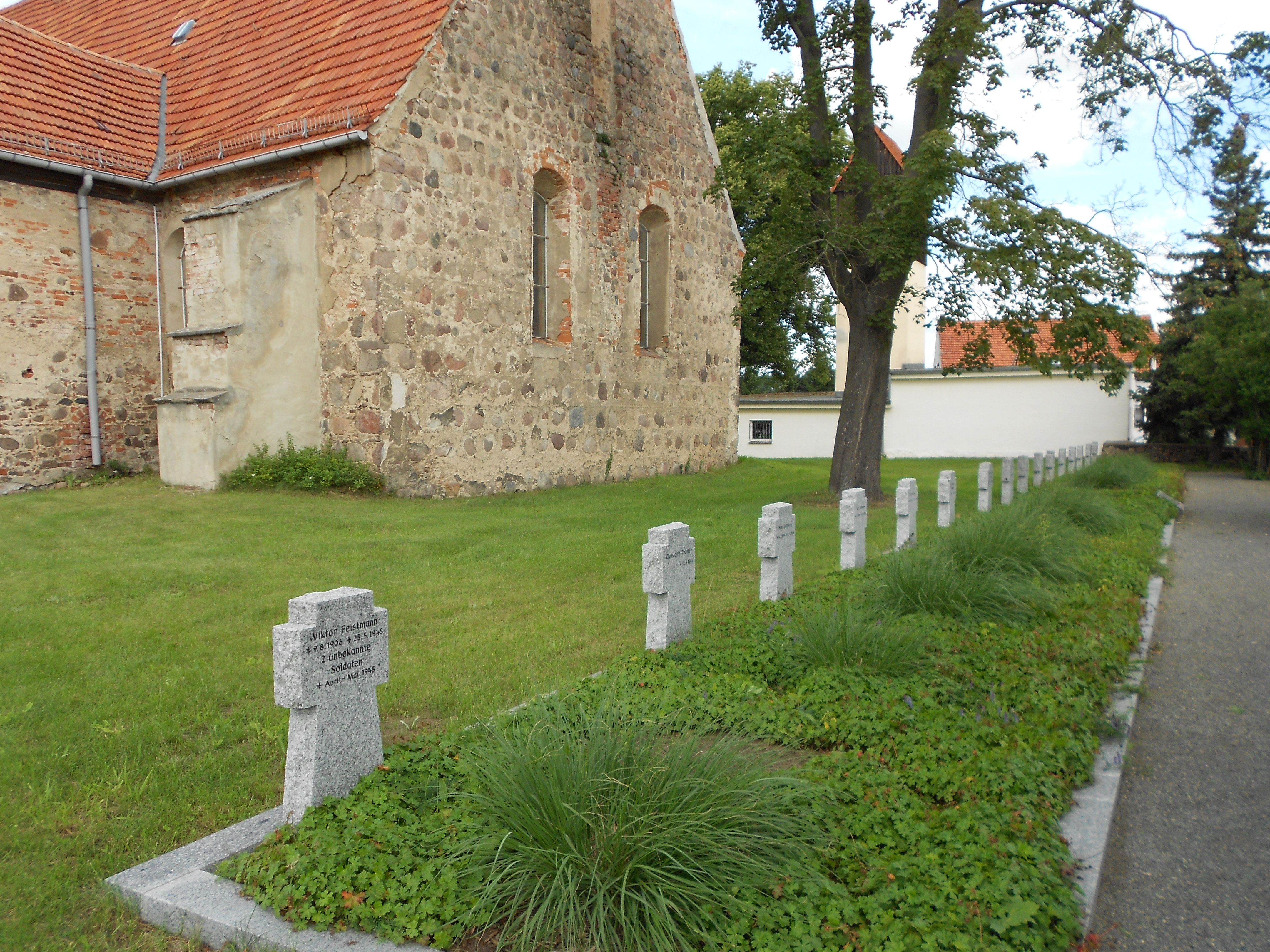 Fieldstone church with soldier cemetery in Paplitz (Baruth/Mark)